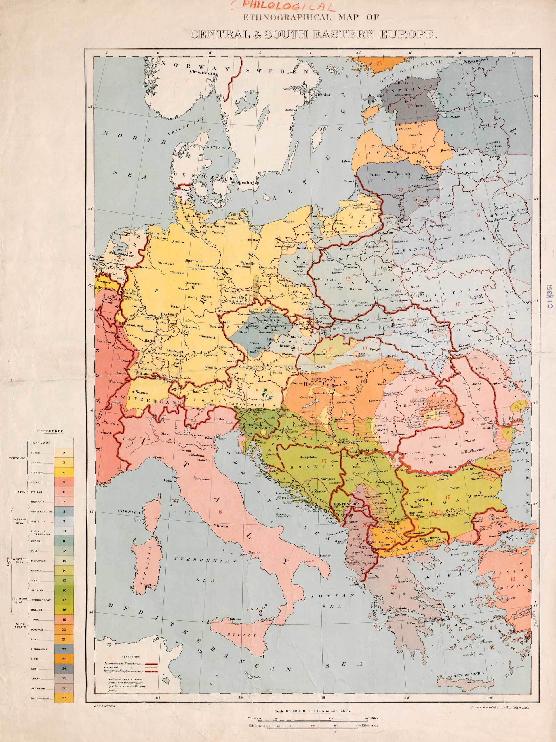 Ethnographic Map of Central and South Eastern Europe, The War Office, London 1916